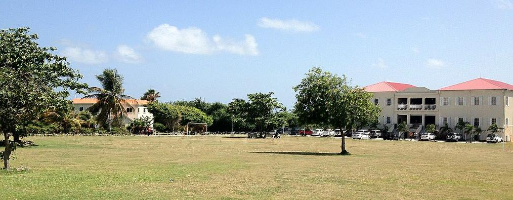 Medical University of The Americas in Nevis